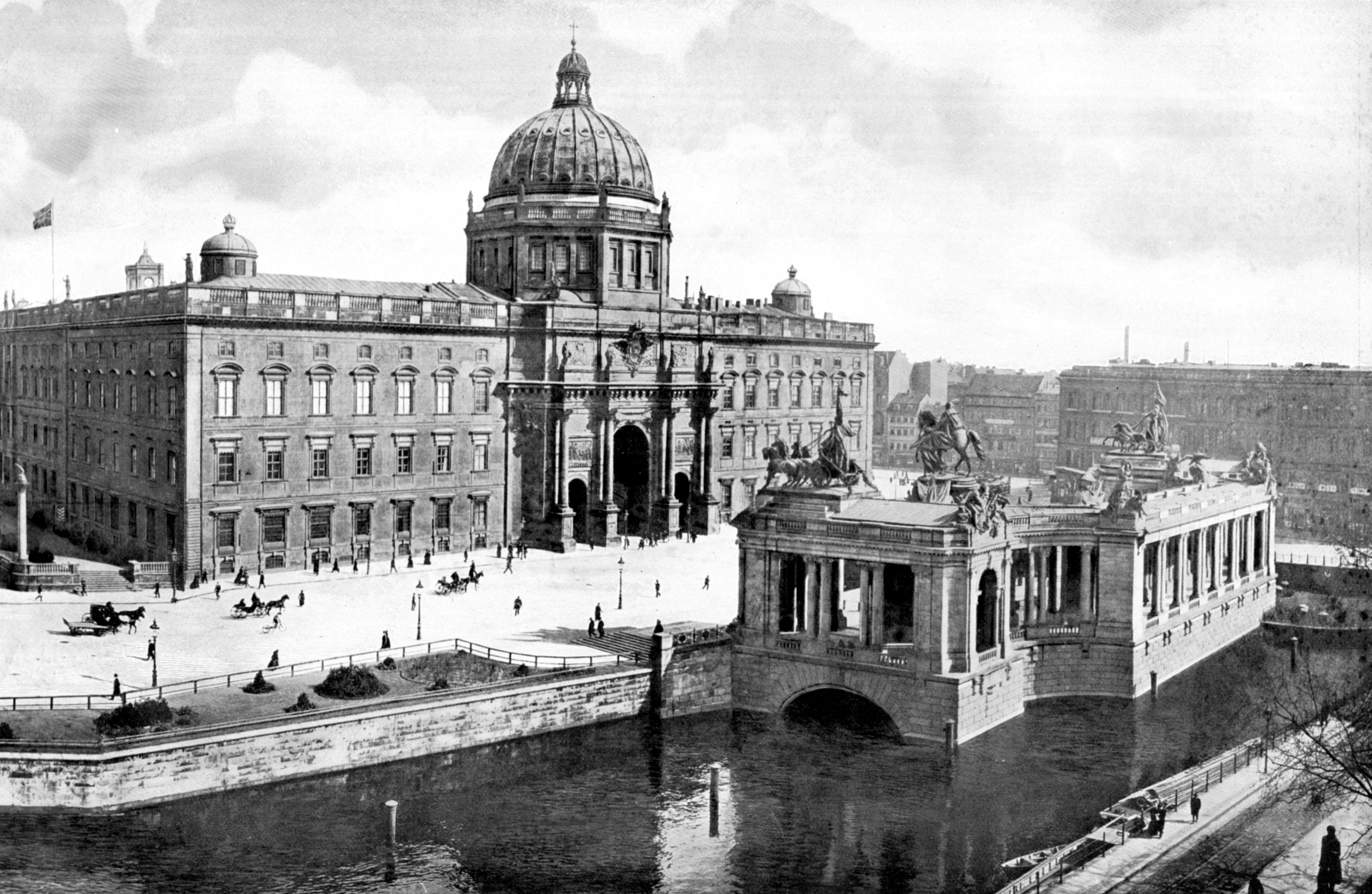 Berlin, Kaiser Wilhelm memorial on the western side of Berlin city palace